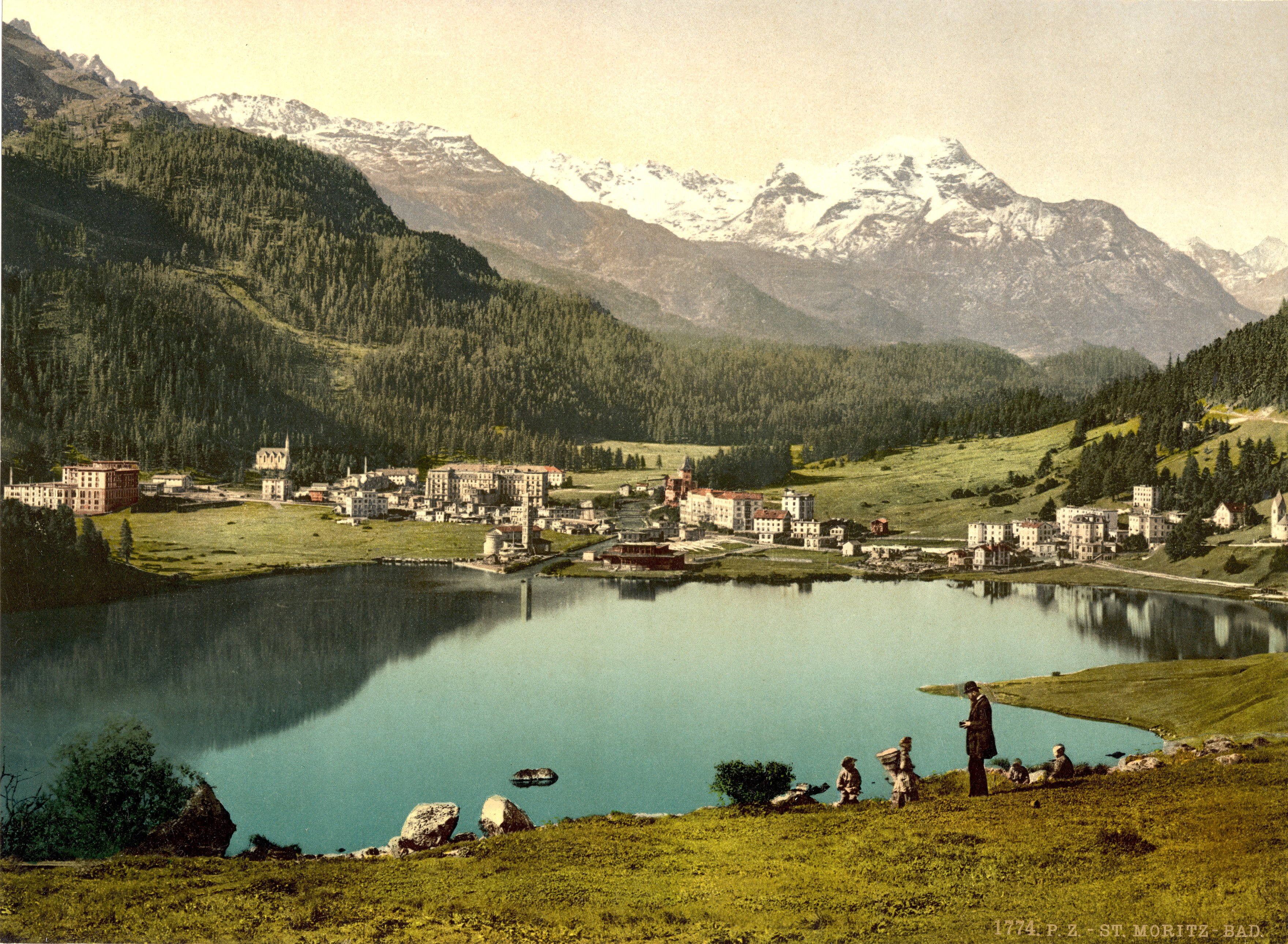 St. Moritz Bad (c. 1900), Lake St. Moritz in the foreground